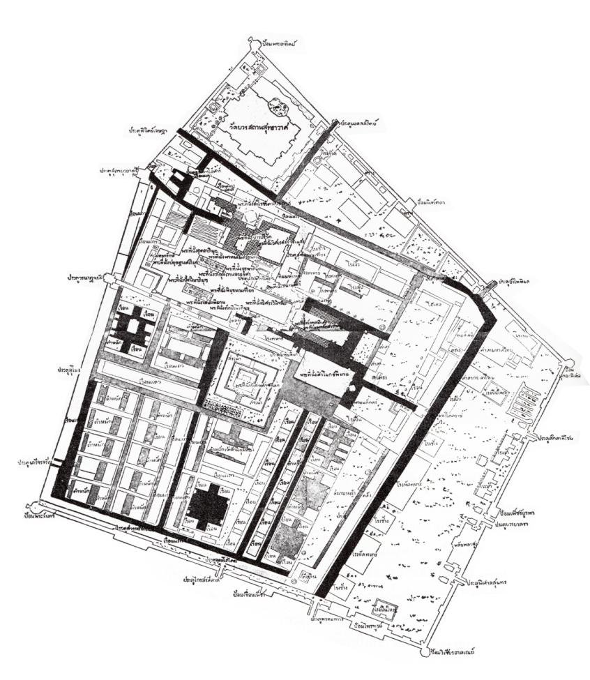 Plan of the Front Palace, drawn in 1918, based on surveys done in 1887